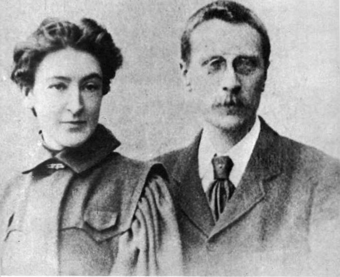 Henry Handel Richardson with her husband John George Robertson 1896